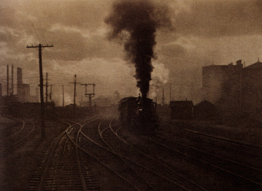 "The Hand of Man" by Alfred Stieglitz